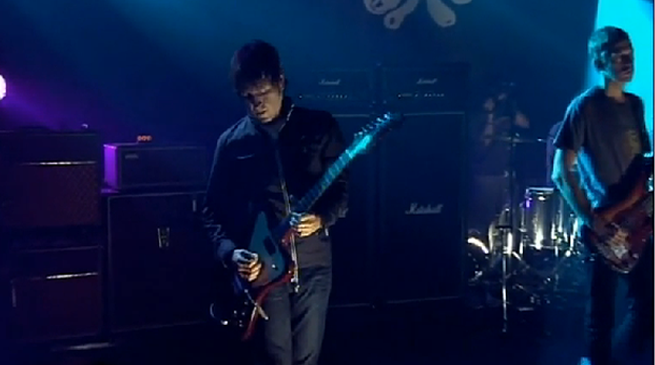 Gem Archer & Andy Bell & Chris Sharrock Performing Live In Sunderland.